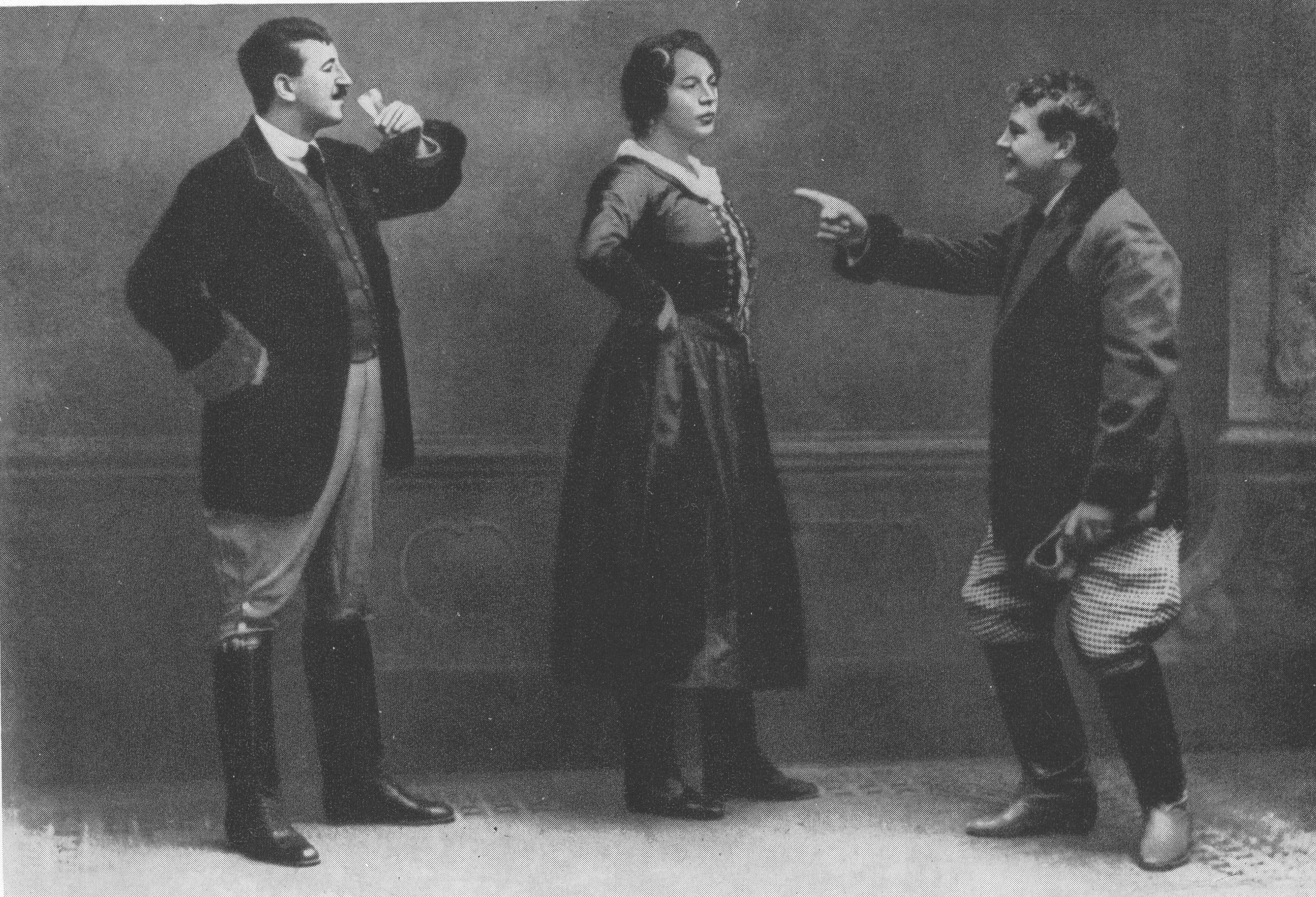 A scene from Vinohrady Musical Theatre (Prague) 1914 production of Oskar Nedbal's operetta Polenblut / Polská krev